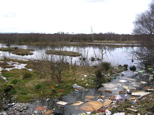 Rubbish site, Drumaduff This lake looked picturesque until I got closer and saw the extent of the illegal dumping along the roadside and caught the smell. Altogether not a pretty sight. There was some evidence of wild life here.